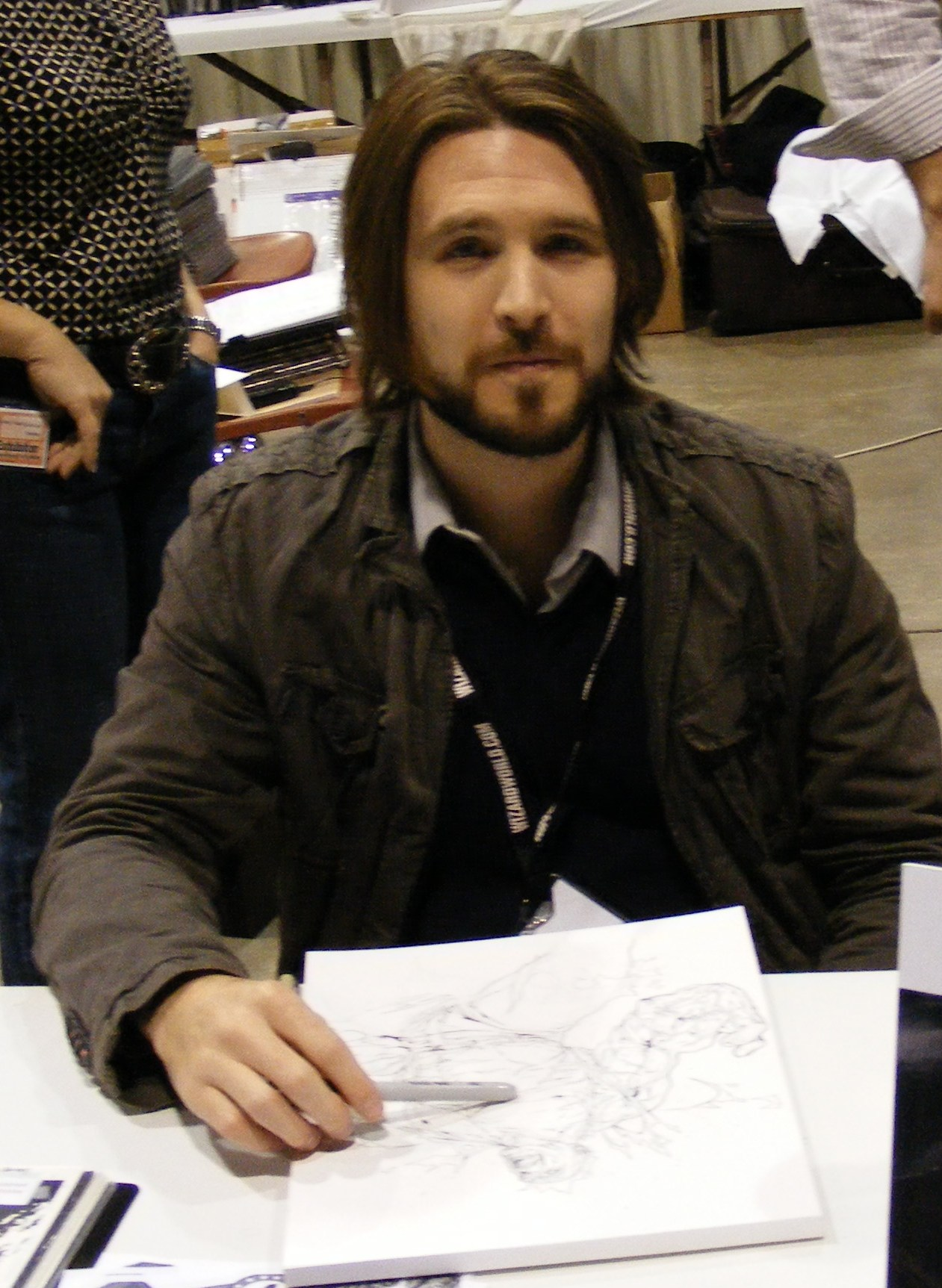 Lee Bermejo at Wizard World-Texas. 2008.